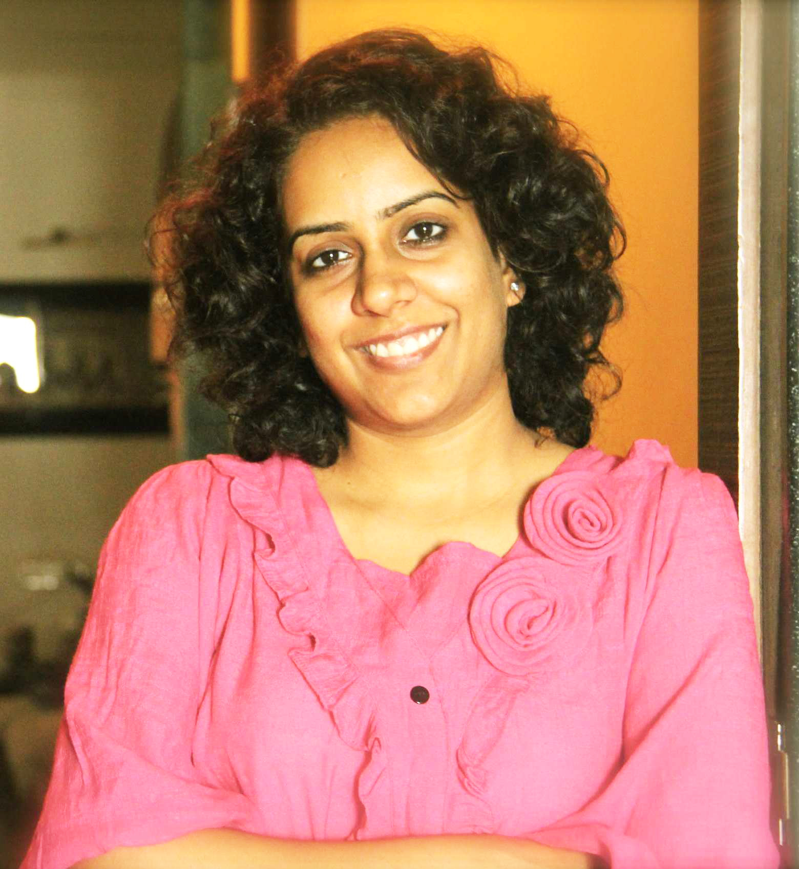 Profile Picture of Ankita Gaba